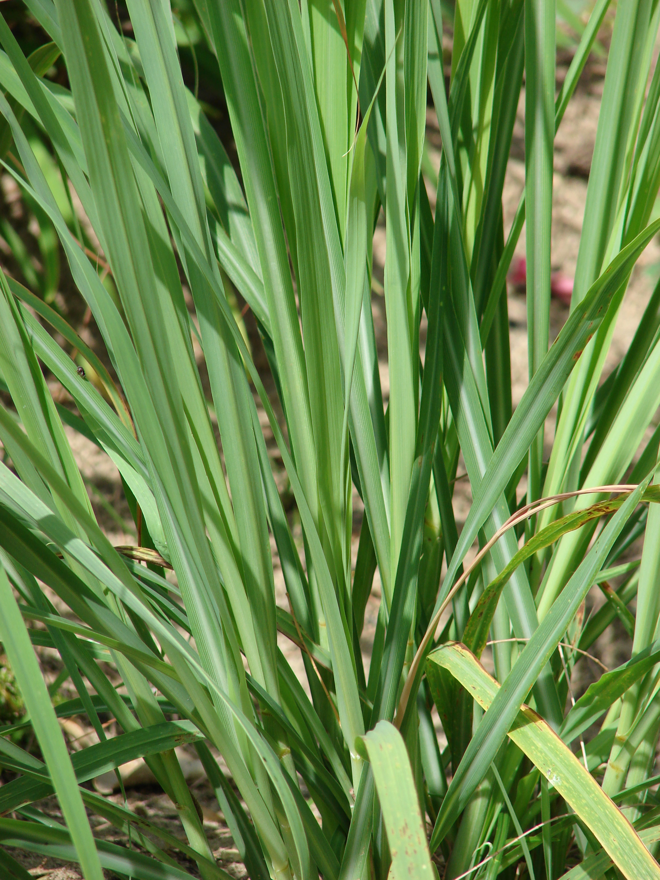 Cymbopogon citratus (leaves). Location: Midway Atoll, Commodore Ave around residences Sand Island